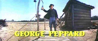 Cropped screenshot of the film How the West Was Won